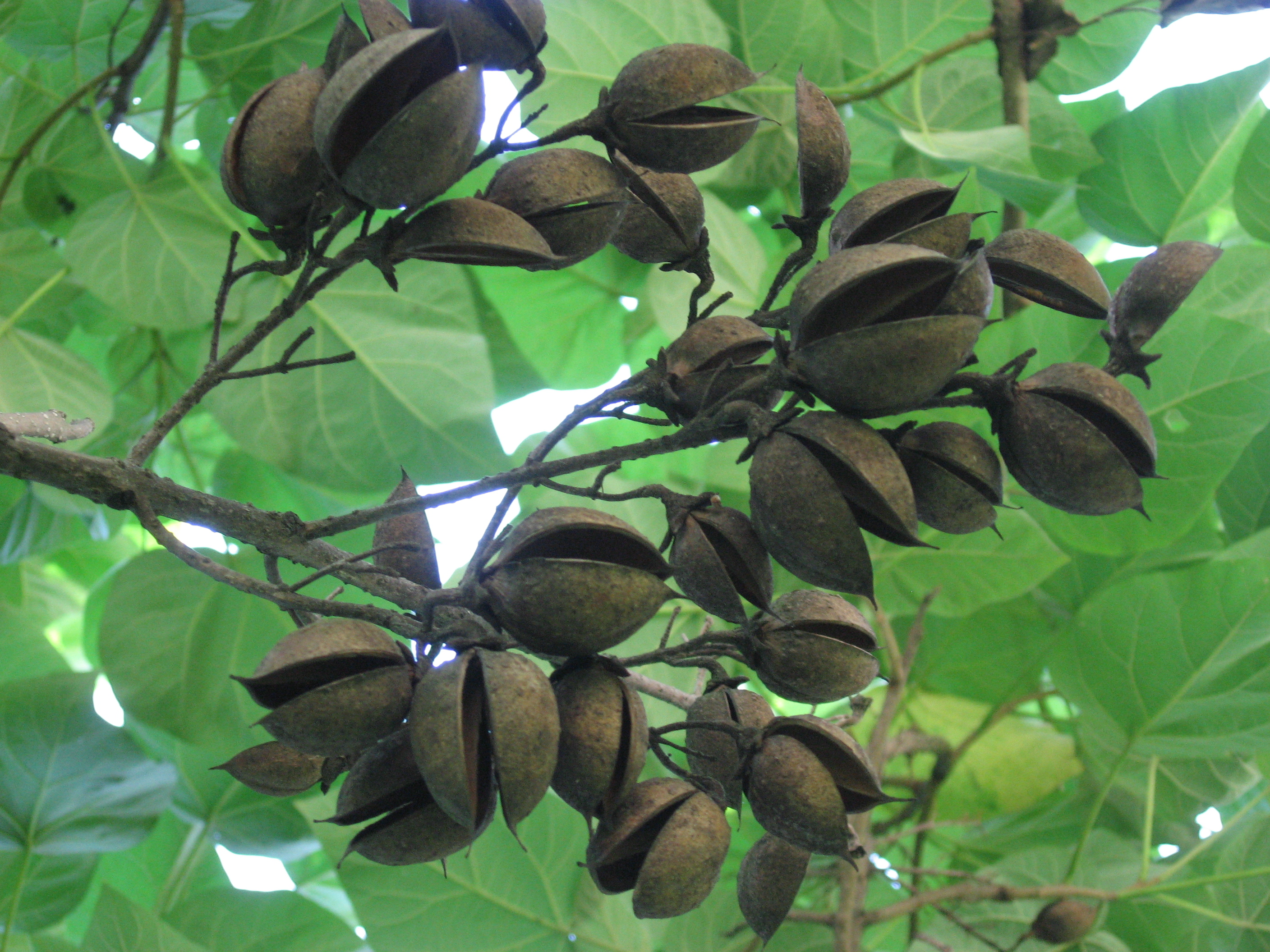 The opened fruit of Paulownia tomentosa.